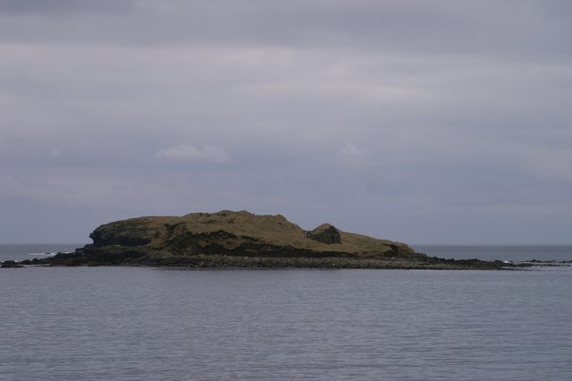 Brough Holm, an island off Unst in the Shetland Islands. The remains of a broch can be seen on the right hand side, whence the name "brough".